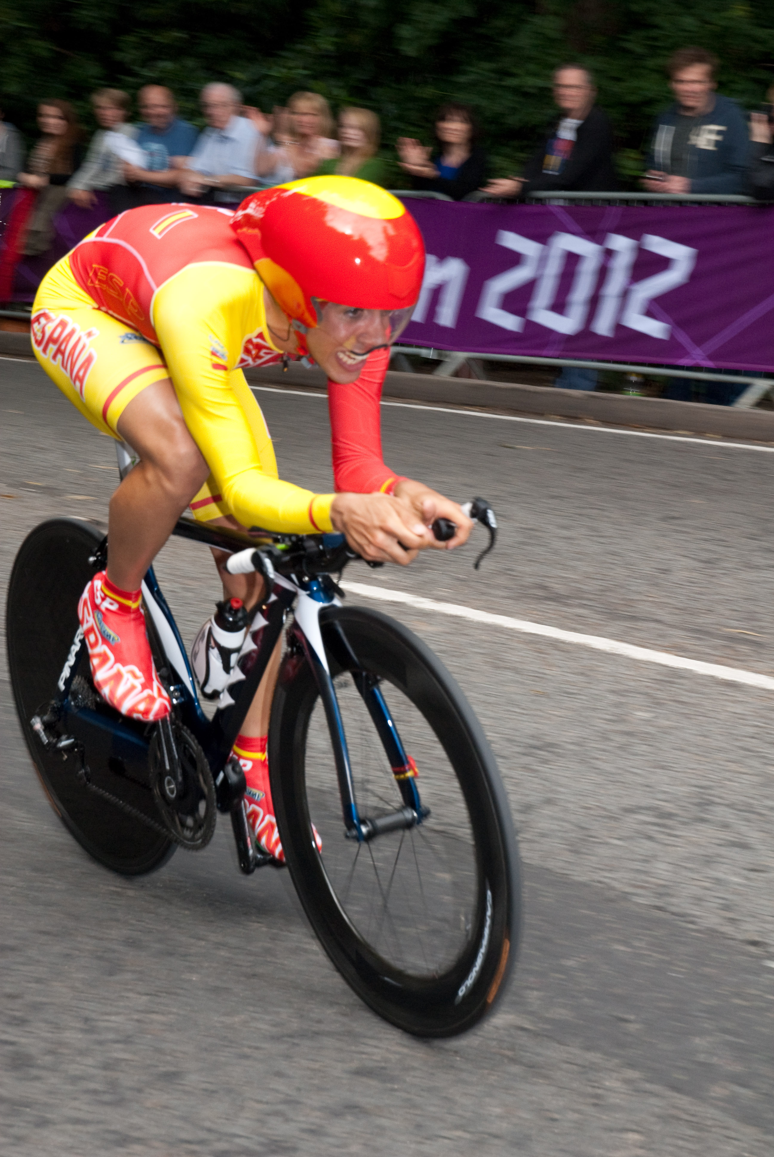 Jonathon Nicolas Castroviejo - Spain